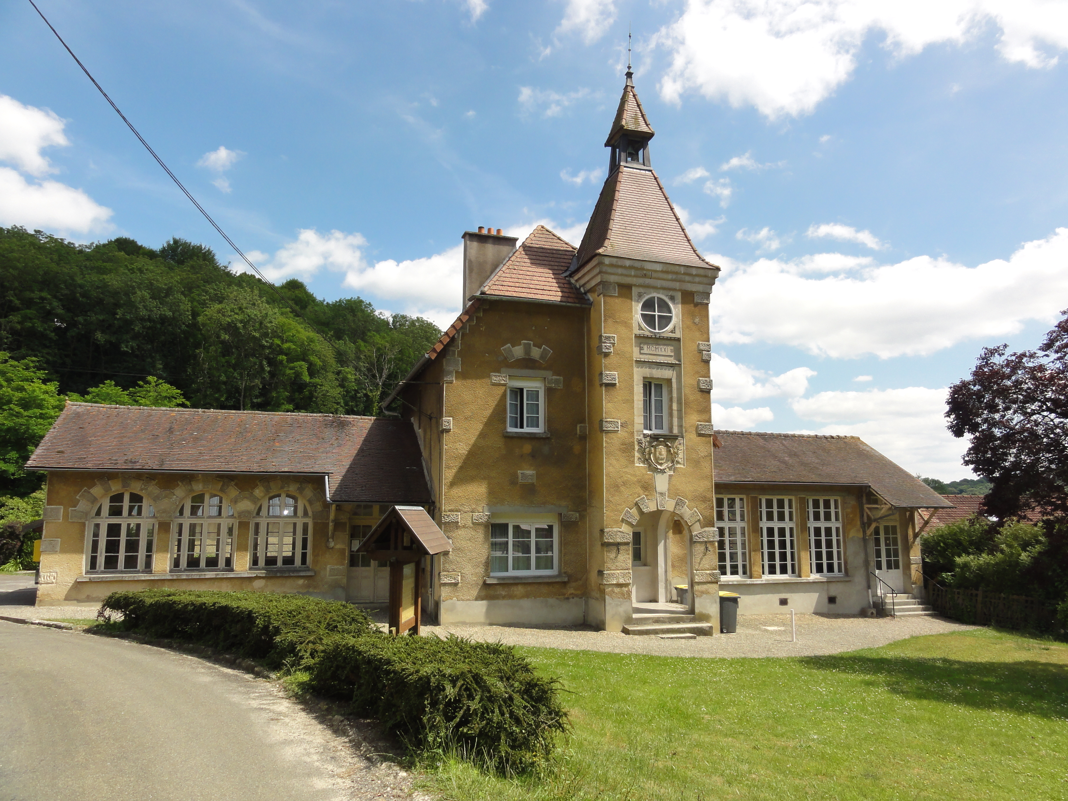 Sancy-les-Cheminots (Aisne) mairie-école